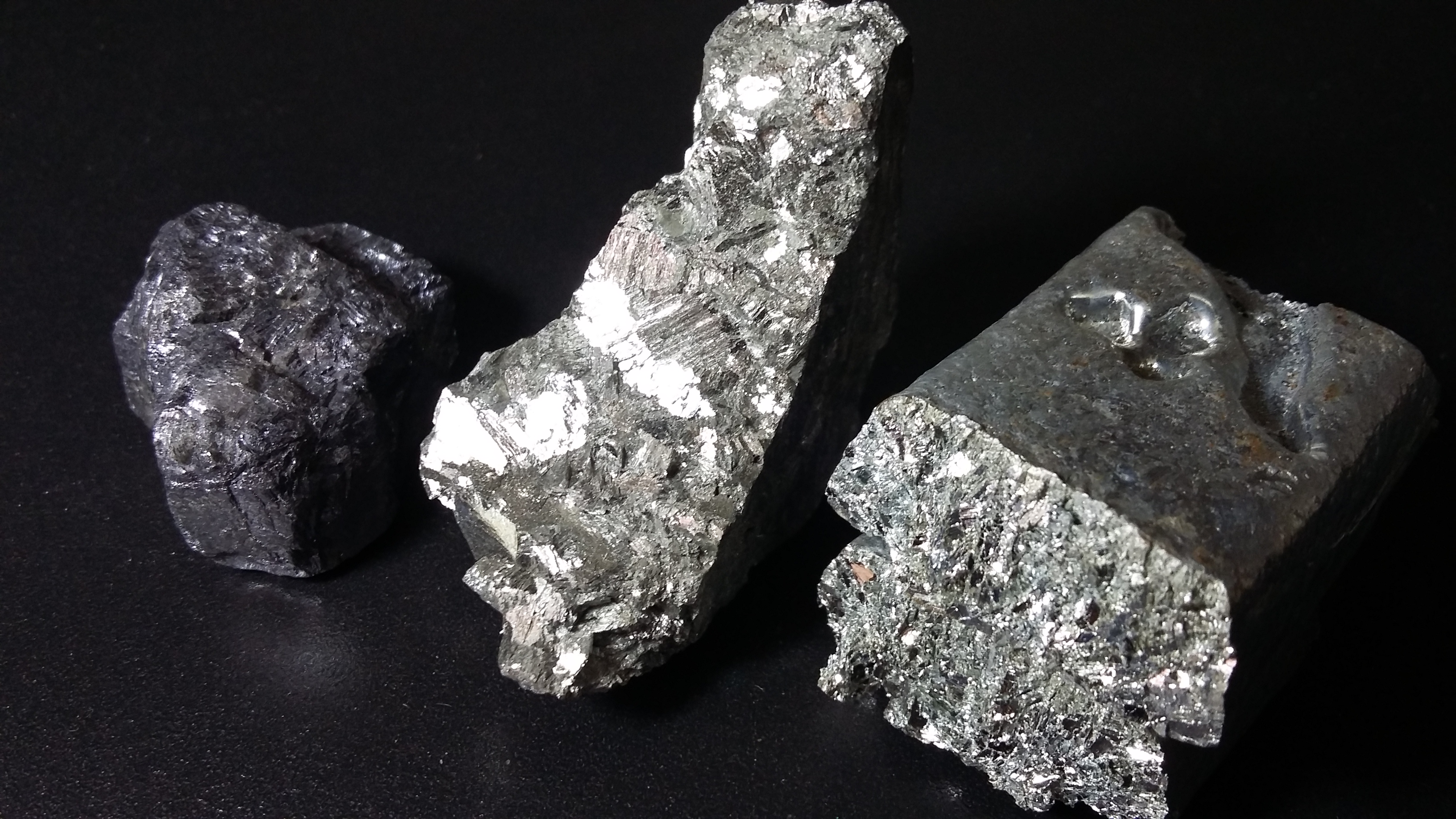 From left to right, Galena, Antimony and Zinc